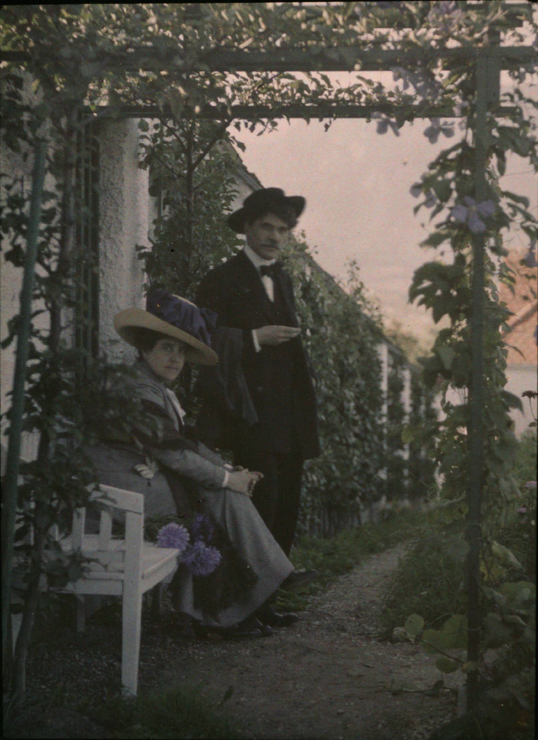 Portrait of the American photographer and modern art promoter Alfred Stieglitz and his wife Emmeline (Emily).